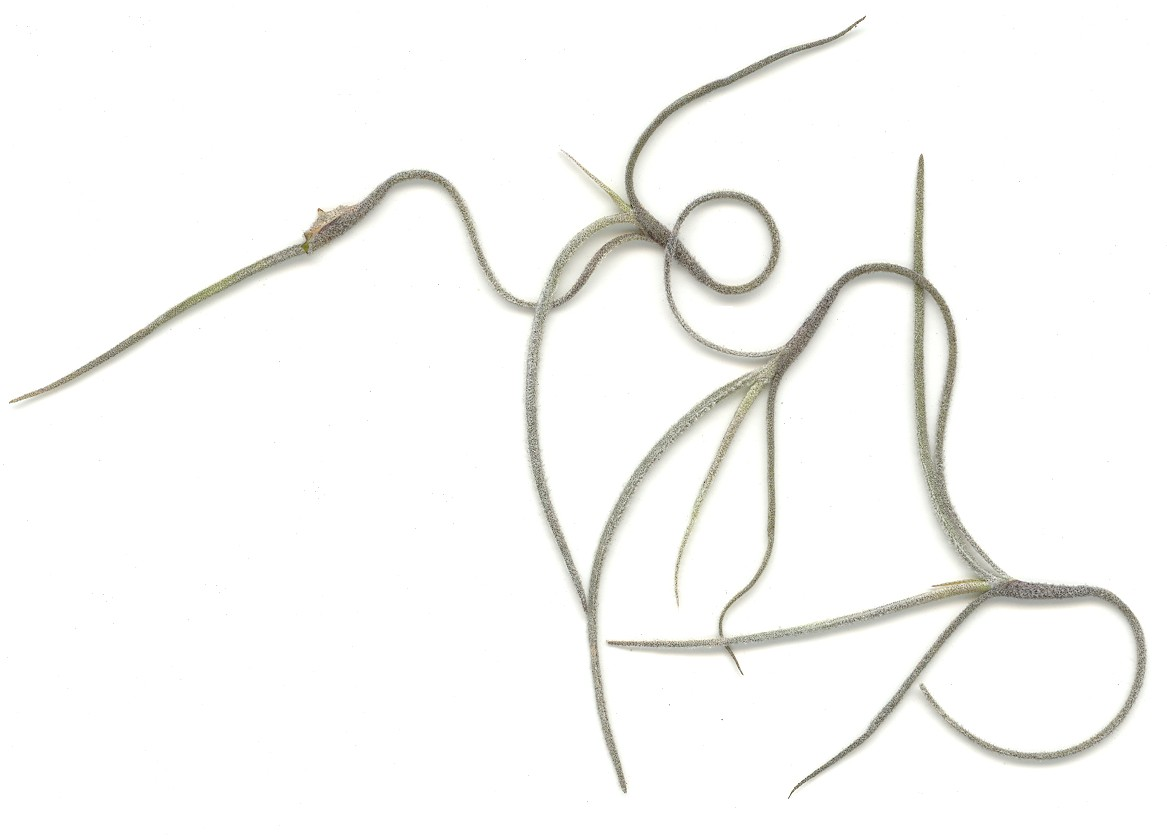 Close-up of Spanish moss (Tillandsia usneoides).